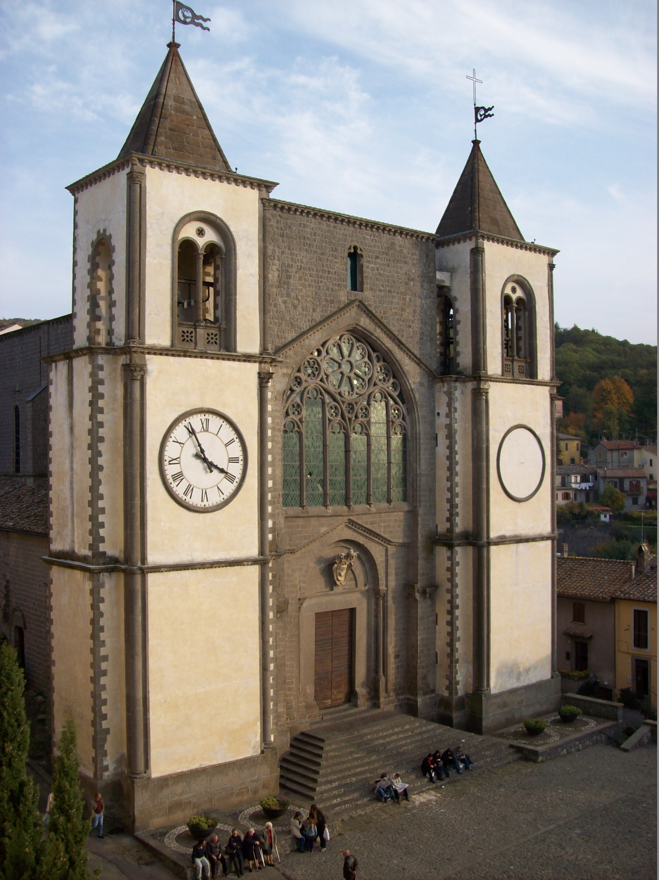 The Abbey of Martin of Tours in san Martino al Cimino, Viterbo, Italy